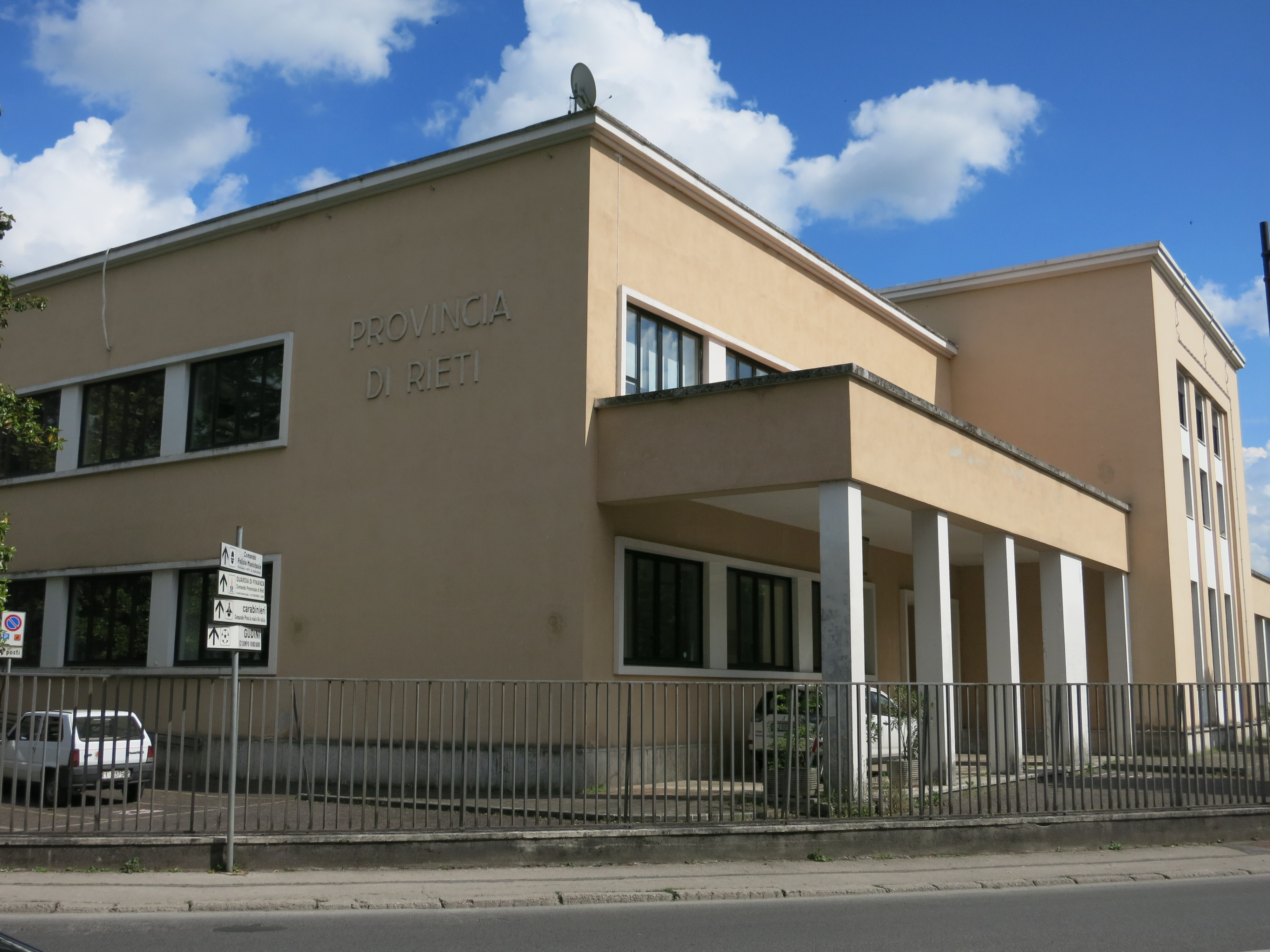 Oltrevelino palace in Rieti (Lazio, Italy), head office of the provincial government